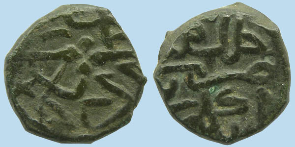 Coin (mangır) from period of Ottoman Sultan Mehmed II (1432-1481), printed in Engüriye (Ankara). Fron of coin: "MEHMED BİN MURAD HAN", back:"HULLİDE MÜLKUHU DURİBE ENGÜRİYE"